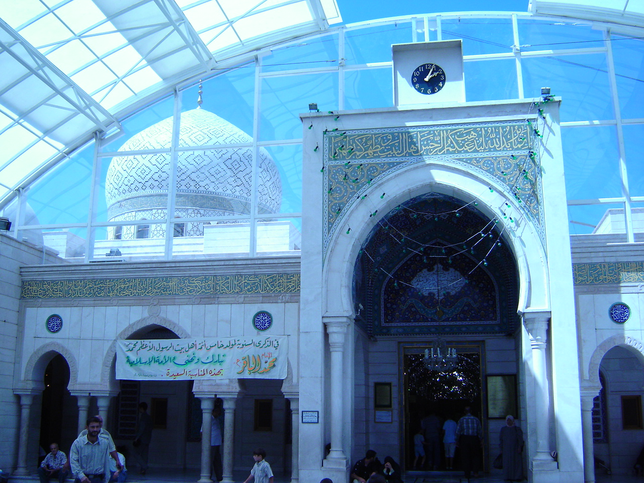 Sayyidah Ruqayya Mosque, Damascus, Syria.